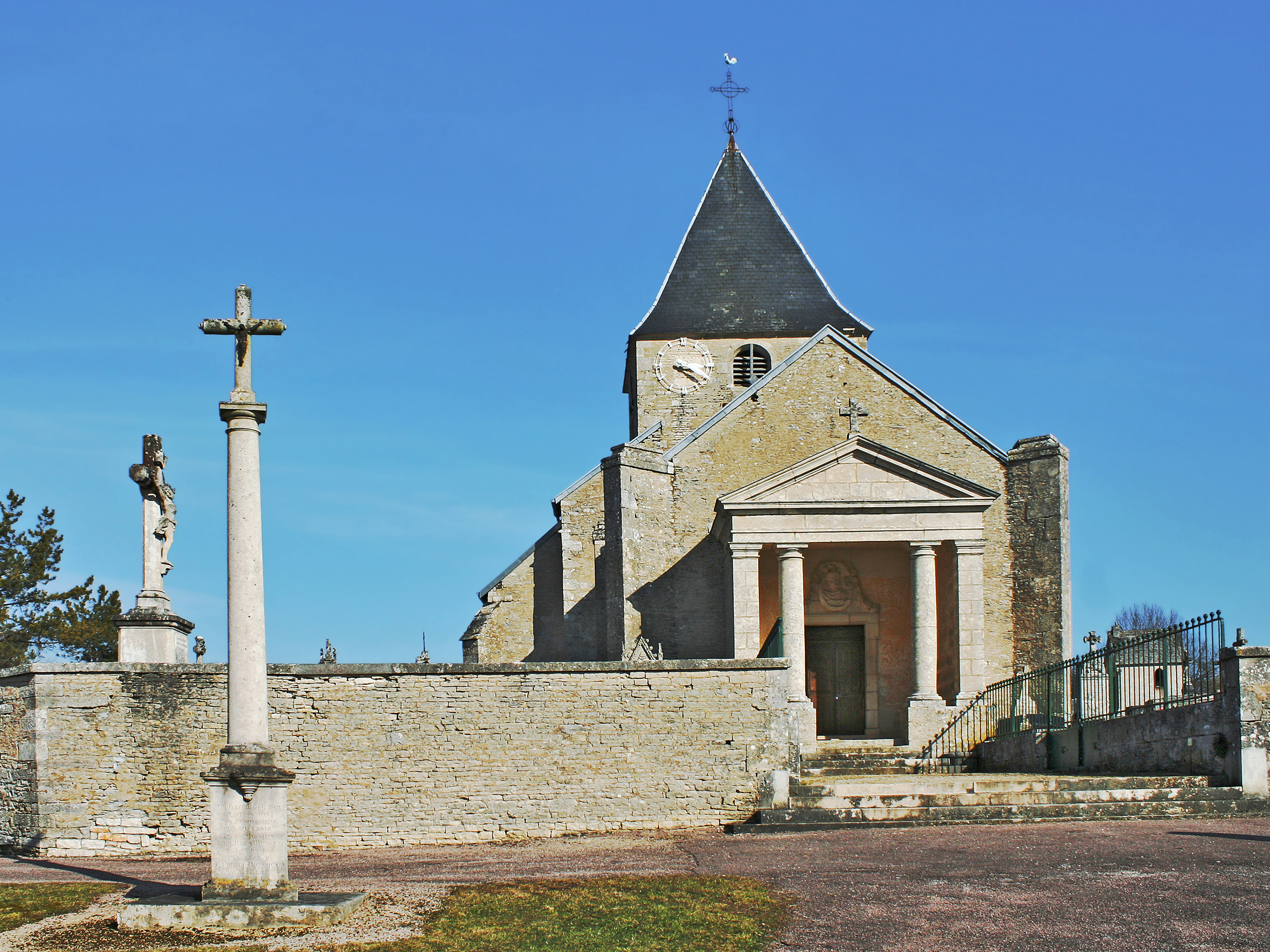 Mission croos and Saint George's church in Buncey